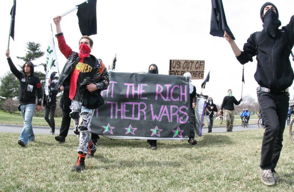 A black bloc element of an Iraq War protest in Washington, D.C., March 21, 2009. This group was being followed by a group of police (background). The full text of the banner reads, "Fight the rich, not their wars." Photo by Vic Reinhart.